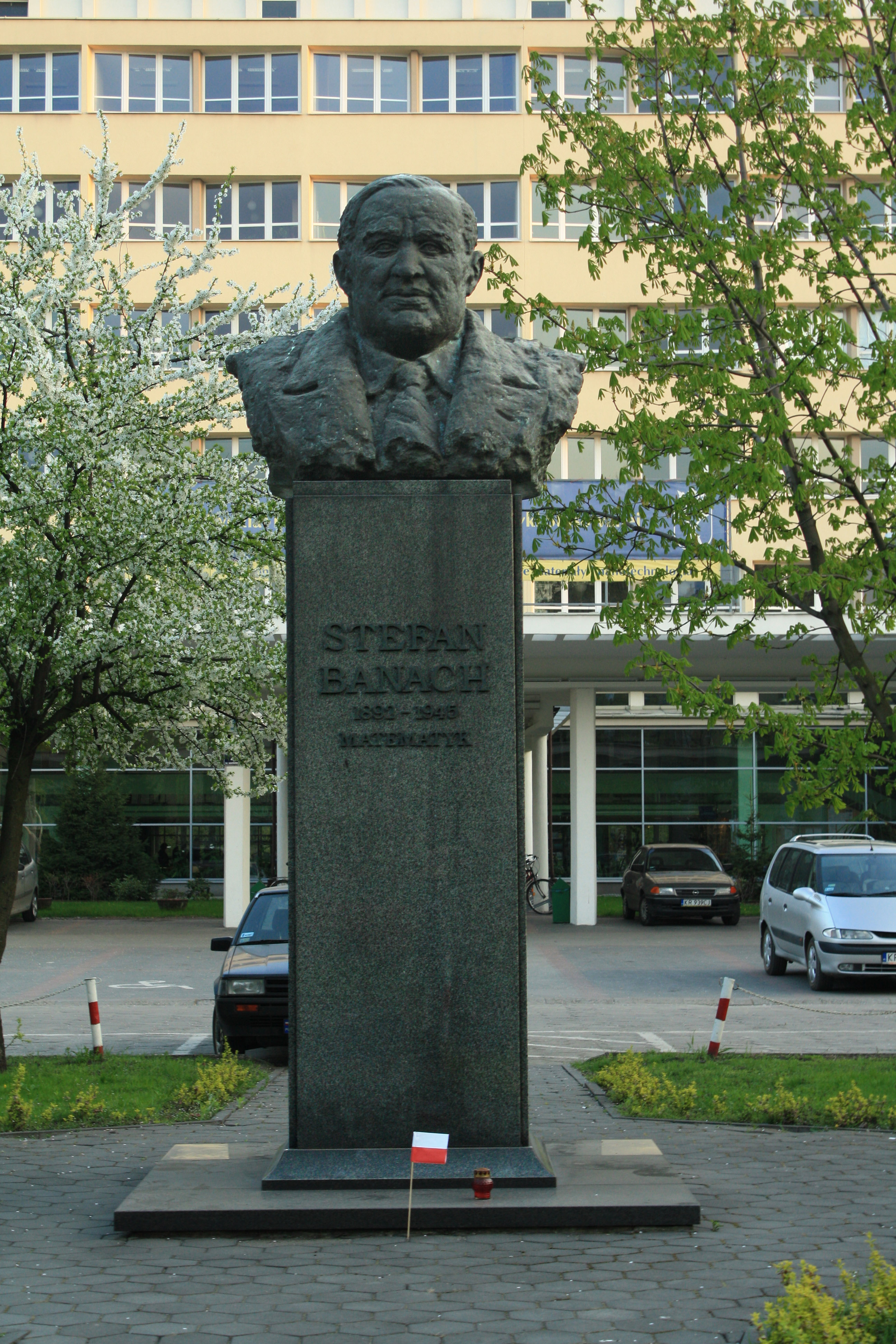 Stefan Banach monument in Kraków